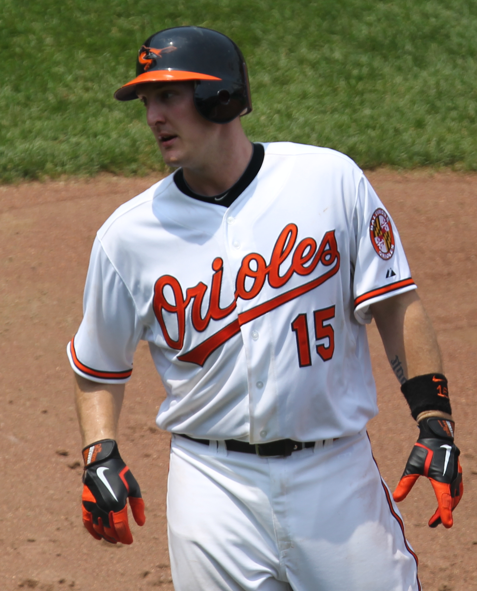 Craig Tatum of the Baltimore Orioles on May 26, 2011.